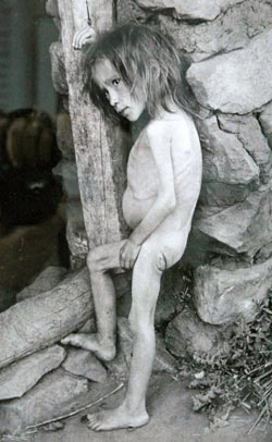 In the village S. Sojekjejevo (Russia, Buguruslan) 1921. A starving 7 year old girl who has a swollen stomach due to prolonged starvation, and because she has eaten grass. Also used under labels "Victims of the Holodomor" in some post 1980s publications [1]